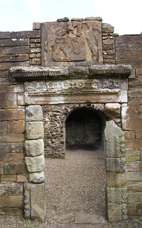 Maybole Collegiate Church, Maybole, South Ayrshire, Scotland - west entrance with Kennedy arms